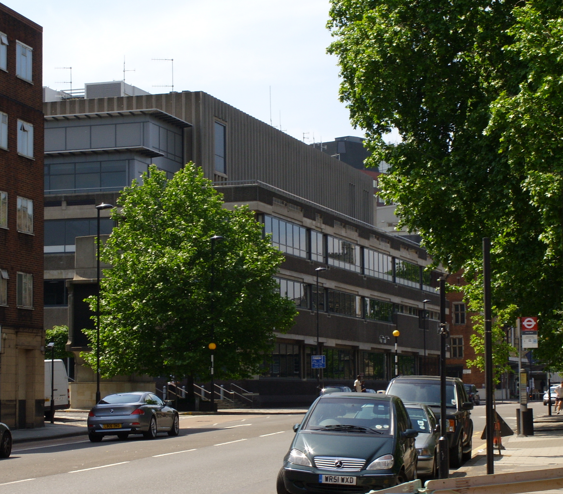 Metcall, Metropolitan Police, London, England